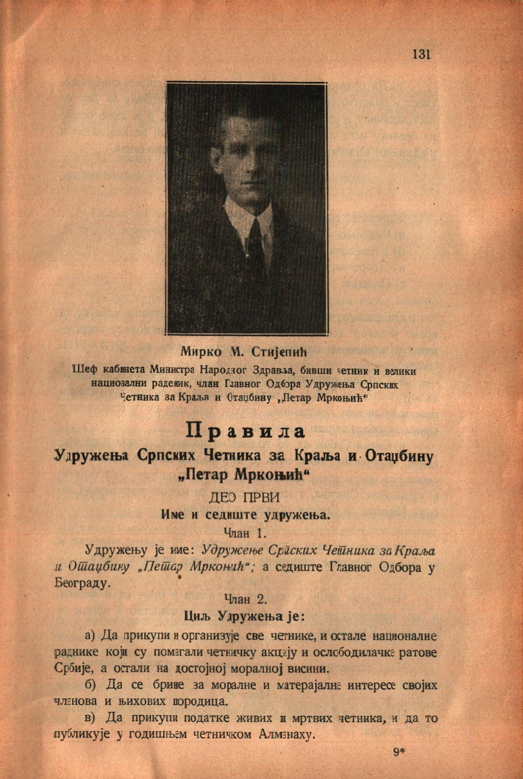 Voyvoda Vuk Popovich. 1927 calendar.